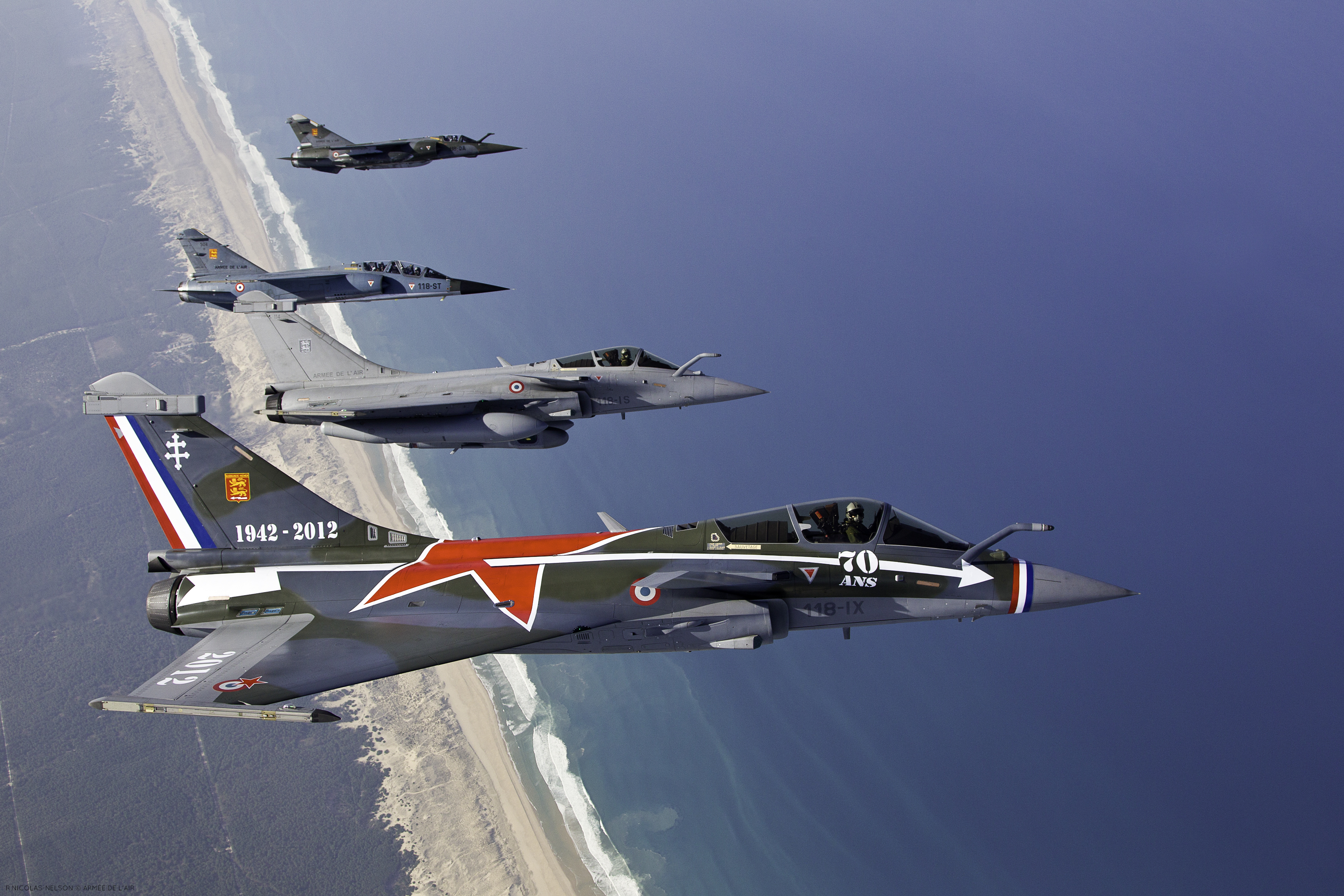 Photo officielle des 70 ans du Régiment de Chasse 2/30 Normandie-Niémen [Squadron's 70 years official picture]